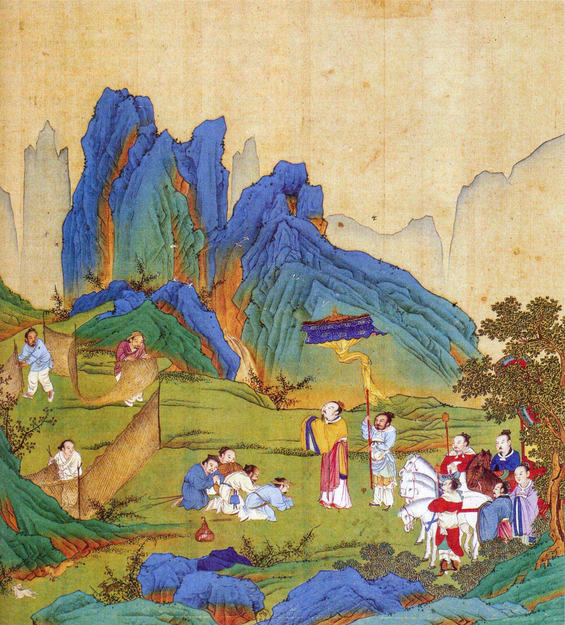 King Tang convinces the fowlers to free their birds